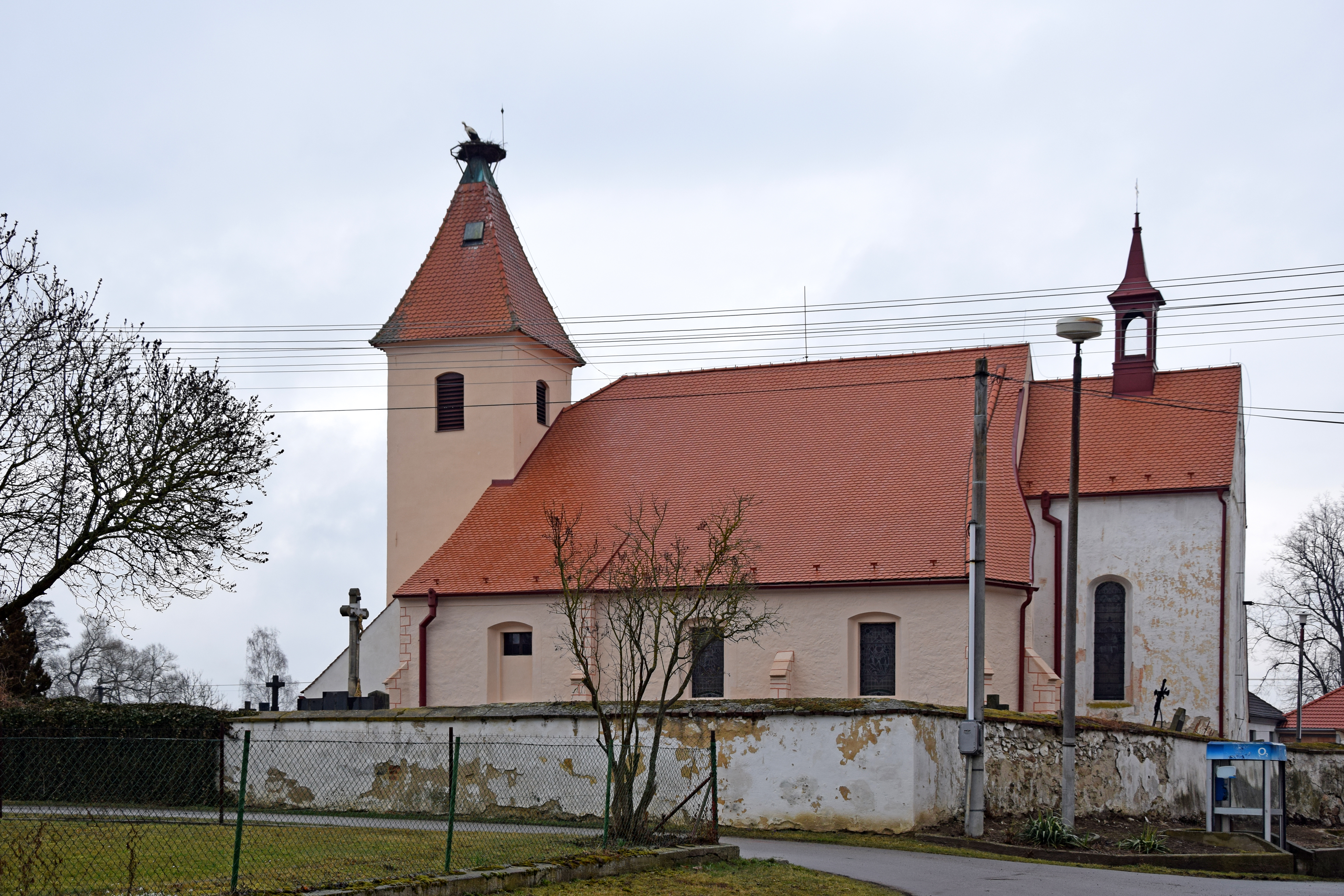 The Church of St Peter and Paul in Strýčice, České Budějovice District, the Czech Republic.